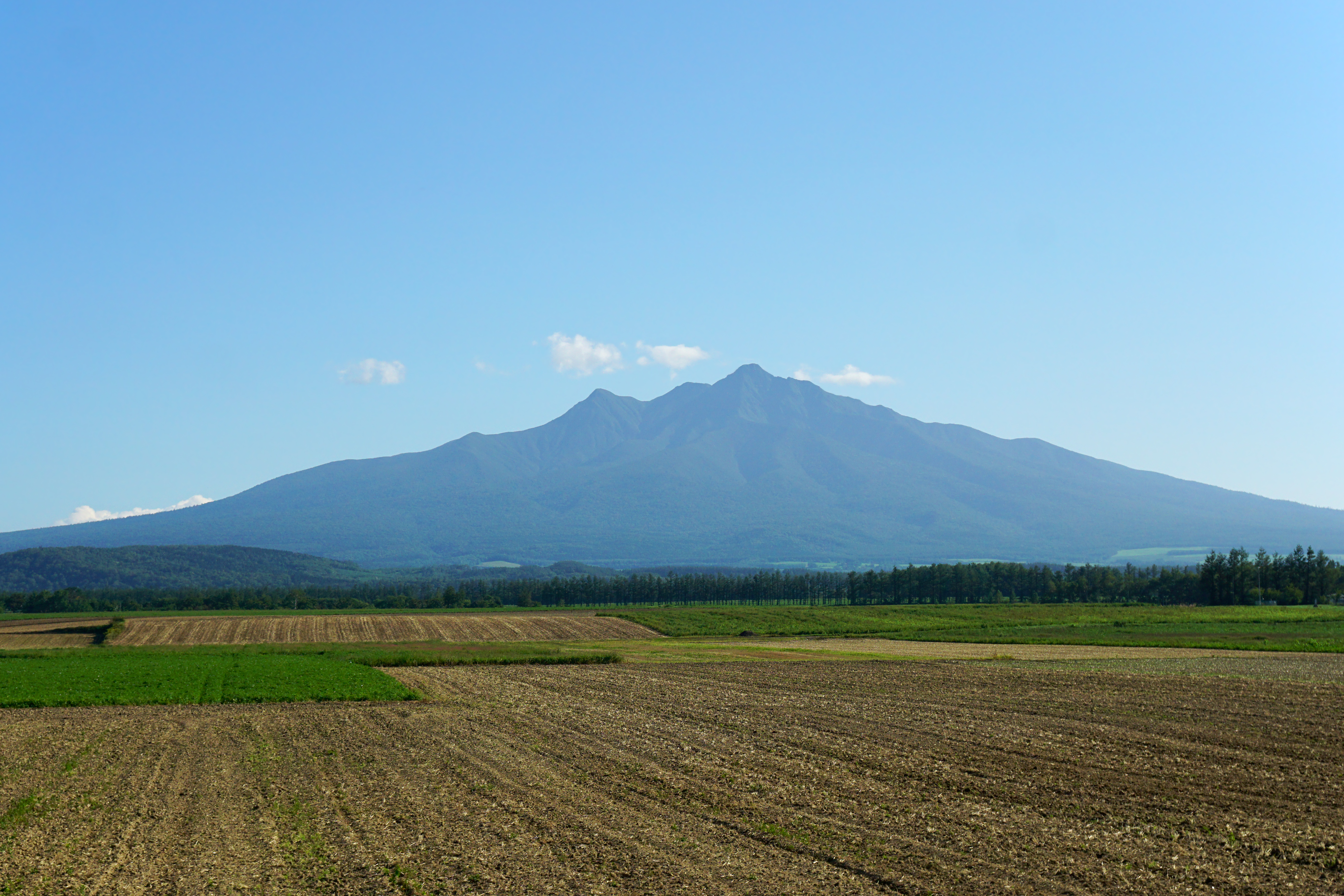 Mount Shari at Shari, Hokkaido prefecture, Japan.